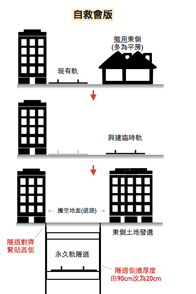 Comparison of Tainan Railway Underground Project by Fantainantieluzijiuhui